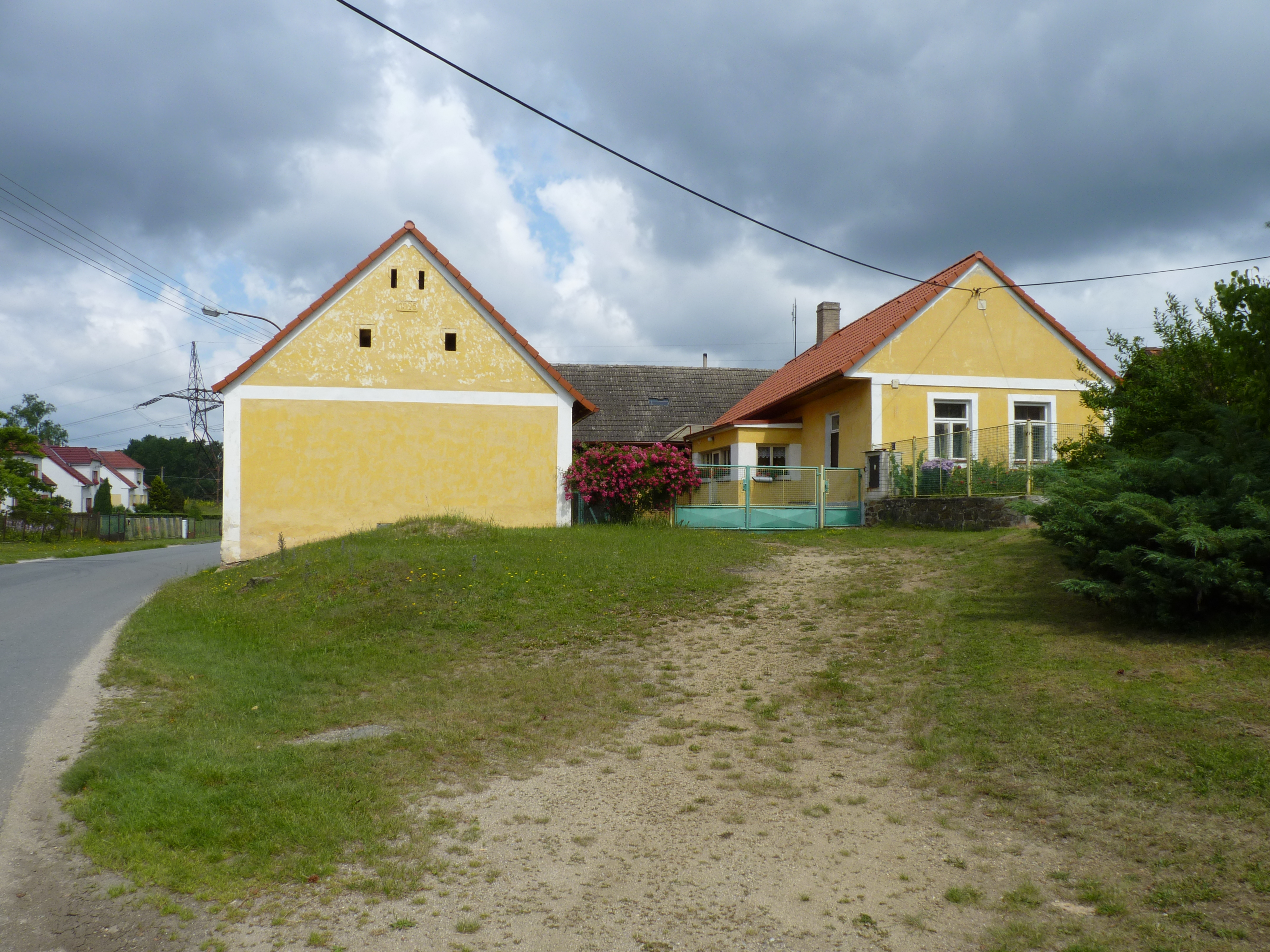 Kolence (Novosedly nad Nežárkou). Jindřichův Hradec District, South Bohemian Region, Czech Republic